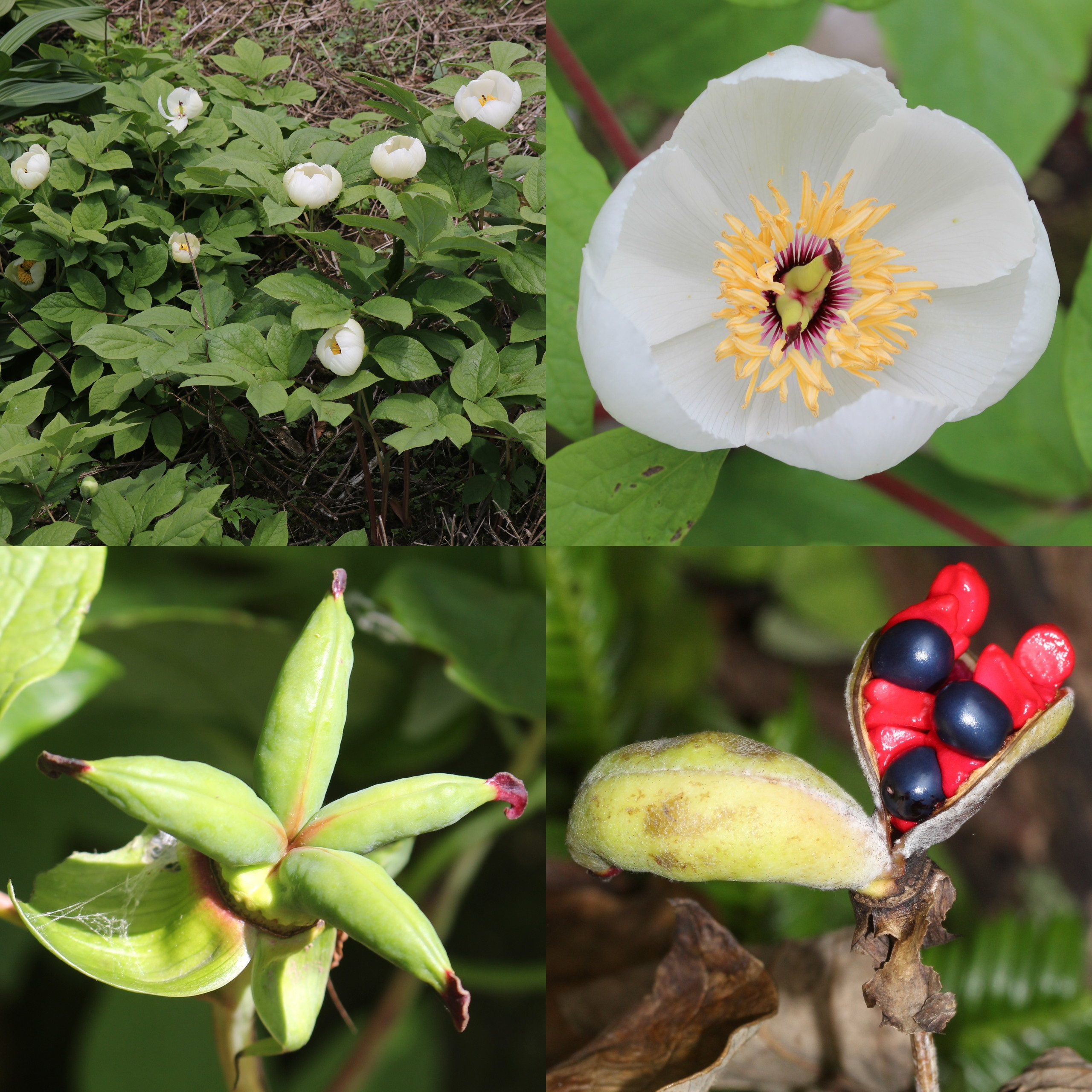 Montage of Paeonia japonica in Japan.